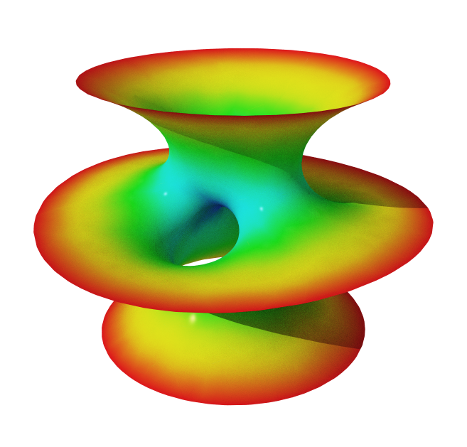 Costa's minimal surface, a three ended, complete embedded minimal surface. Rendered from a polygon mesh from the Scientific Graphics Project at MSRI.